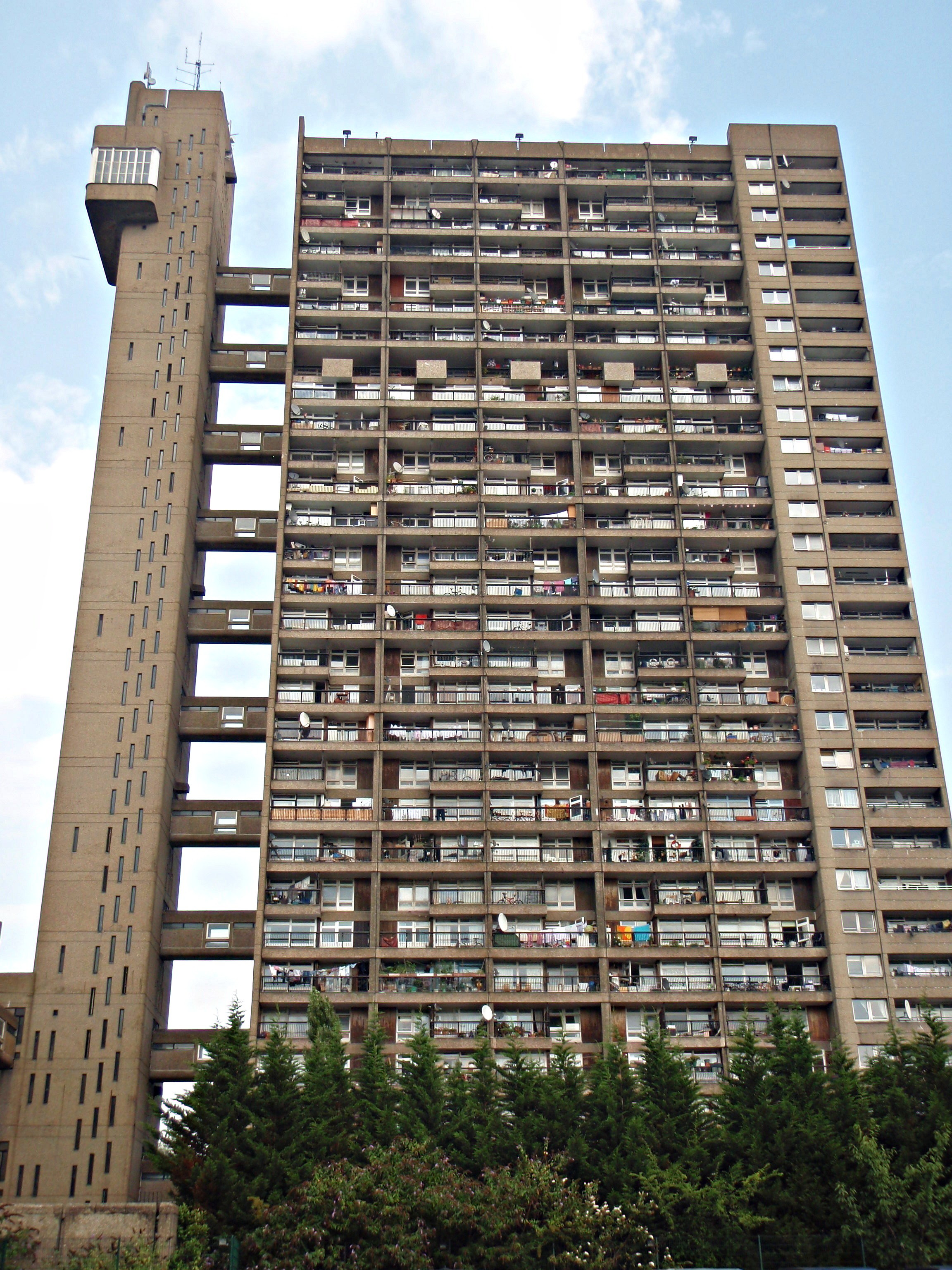 Trellick Tower.